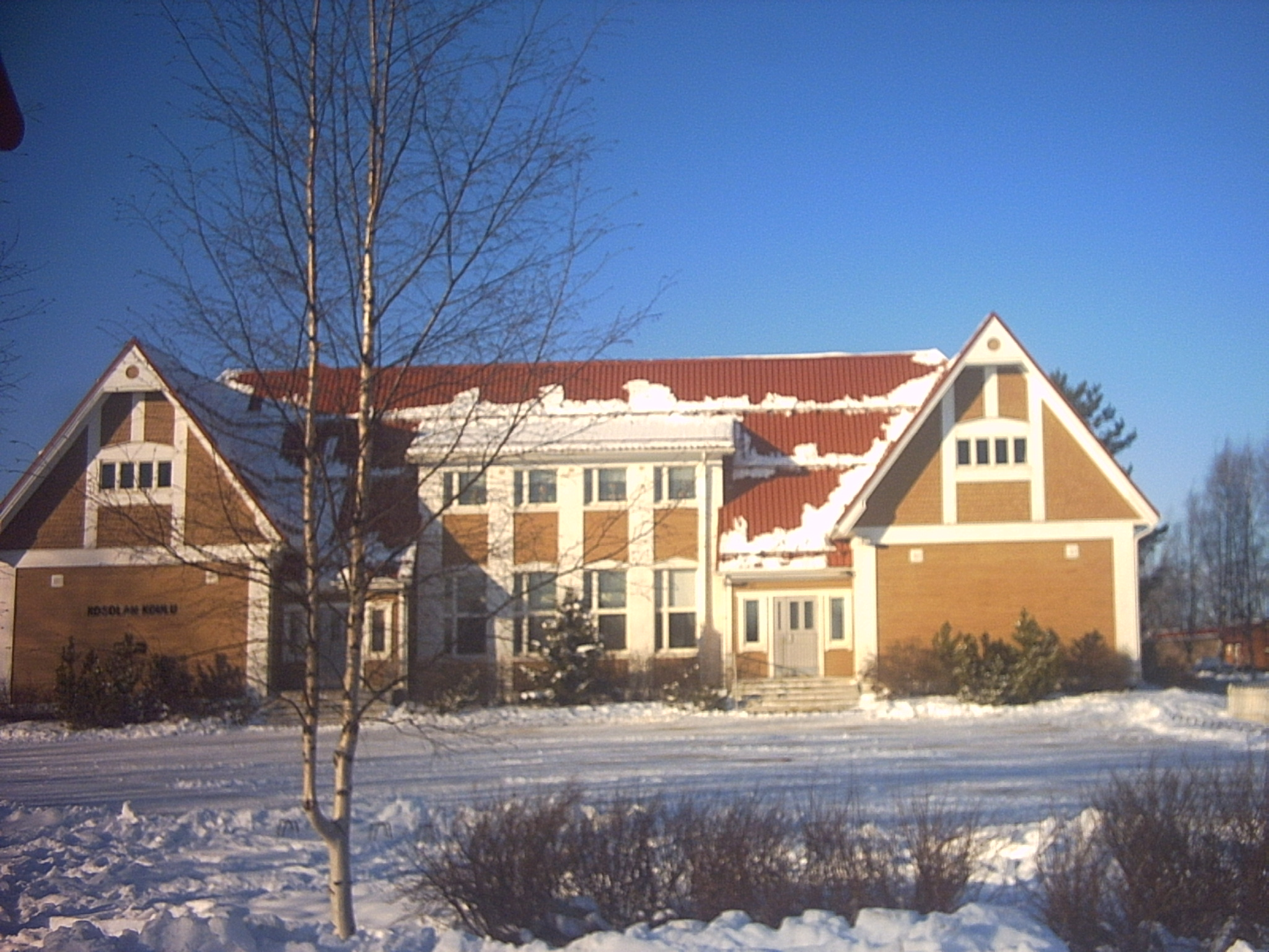 Kosola School in Kauhava, Finland